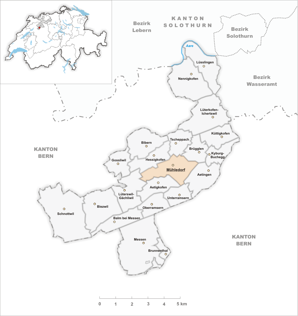 Municipality Mühledorf